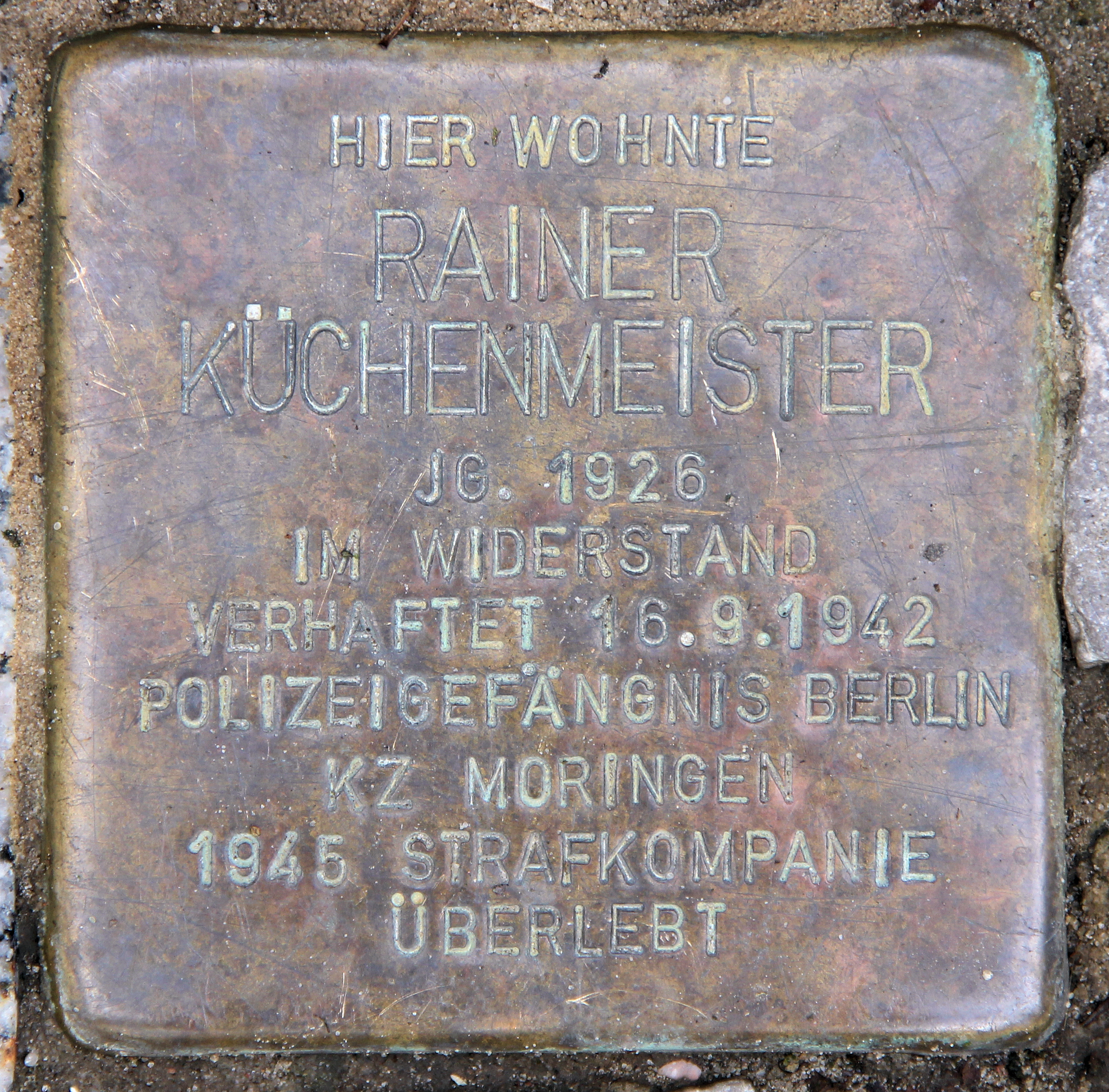 "Stolperstein" (stumbling block), Rainer Küchenmeister, Sächsische Straße 63a, Berlin-Wilmersdorf, Germany